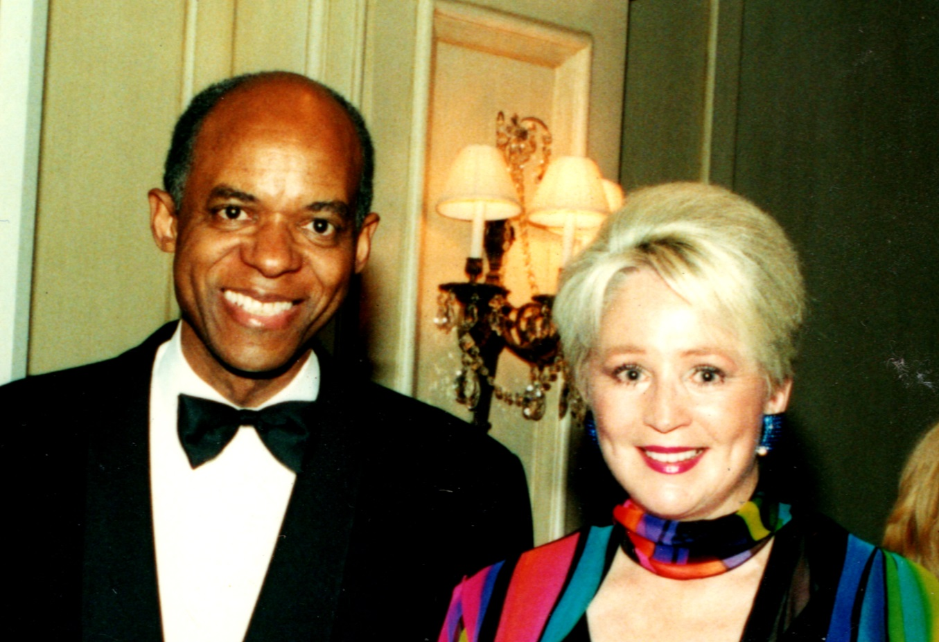 Congressman William Jefferson and Angela Hill, former New Orleans journalist.